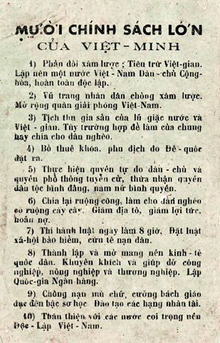 Policy of Viet Minh 1945